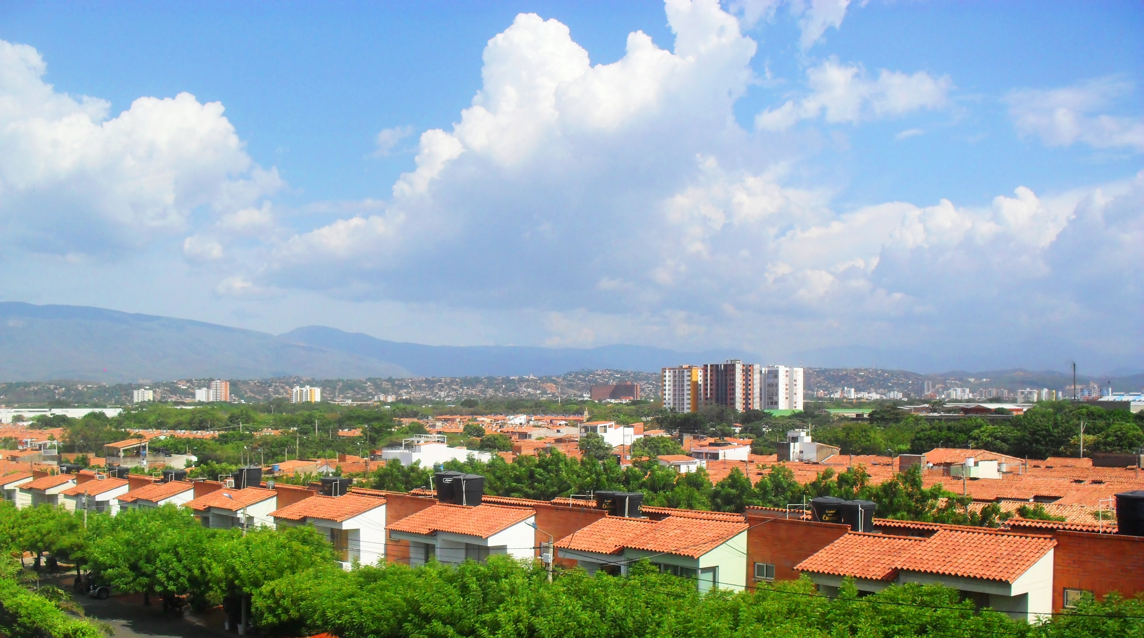 northern city of Cúcuta.